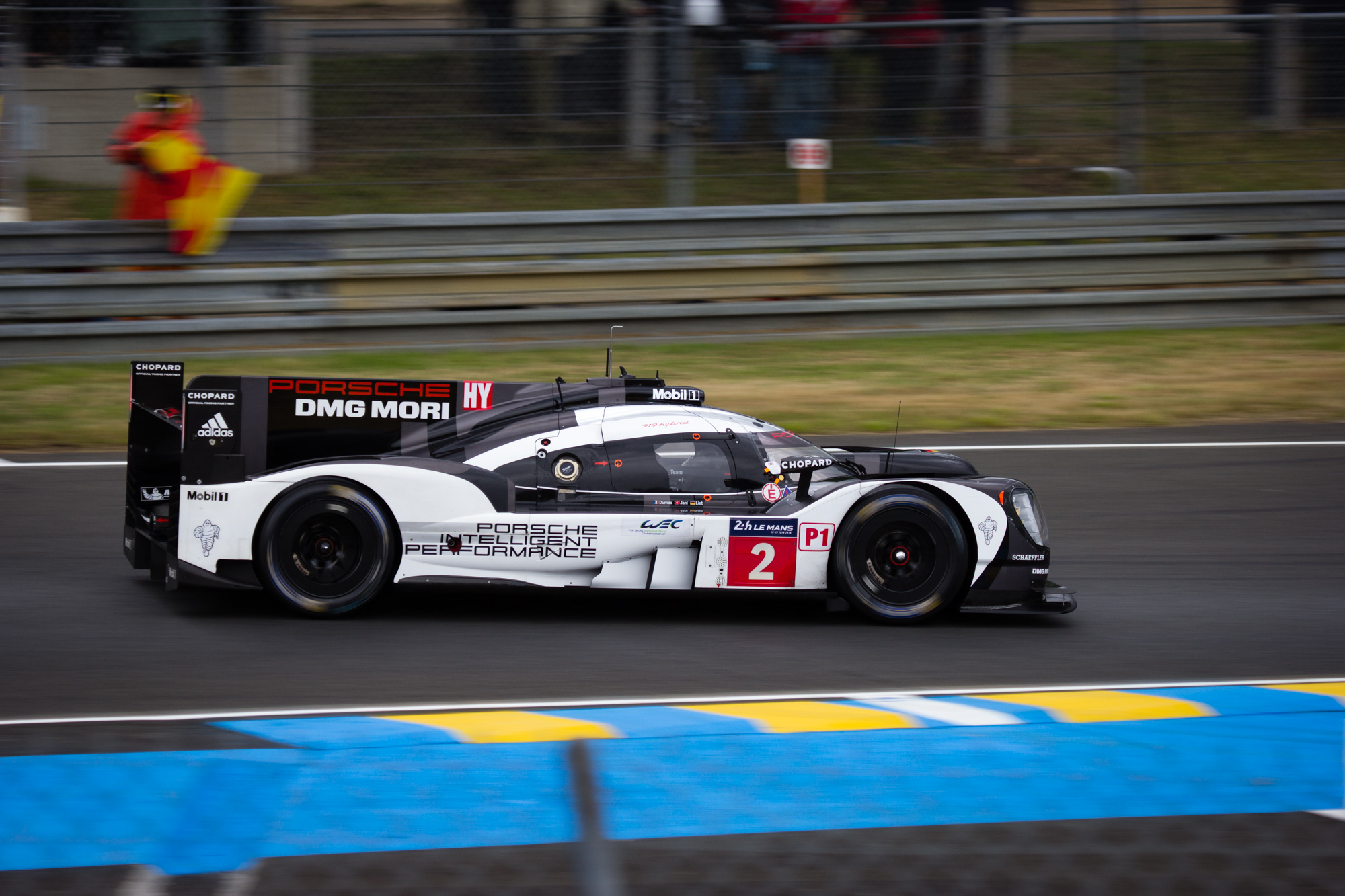 Drivers: Romain Duma, Neel Jani, Marc Lieb